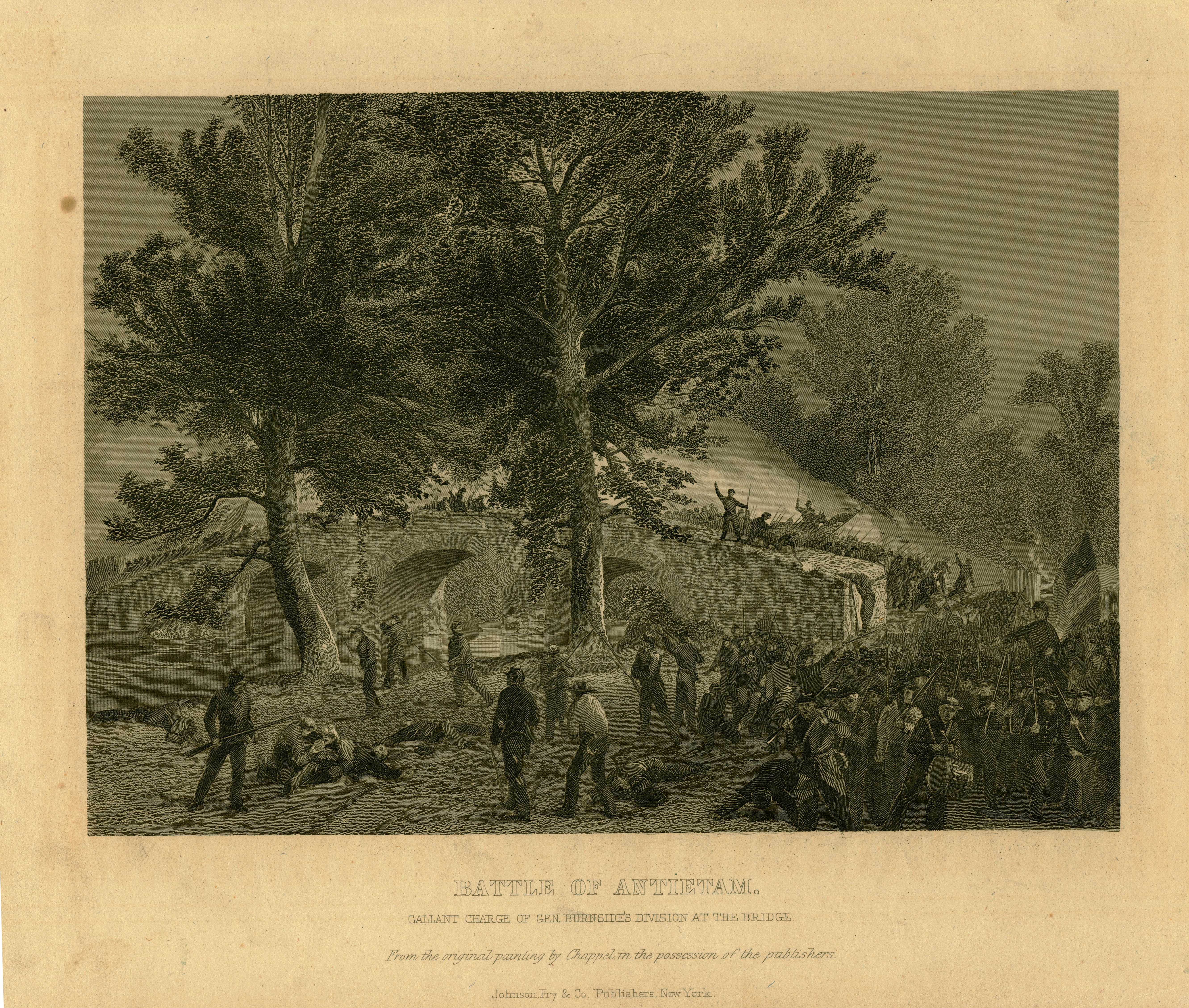 Print of soldiers in foreground and more soldiers in the background crossing a stone bridge. "BATTLE OF ANTIETAM. / GALLANT CHARGE OF GEN. BURNSIDE'S DIVISION AT THE BRIDGE." (printed below image). Print taken from a book titled "History of the War for the Union" by E. A. Duyckinck and illustrated by Alonzo Chappel. The book was published in New York by Johnson, Fry and Company.Title: "Battle of Antietam. Gallant Charge of Burnside's Division at the Bridge."